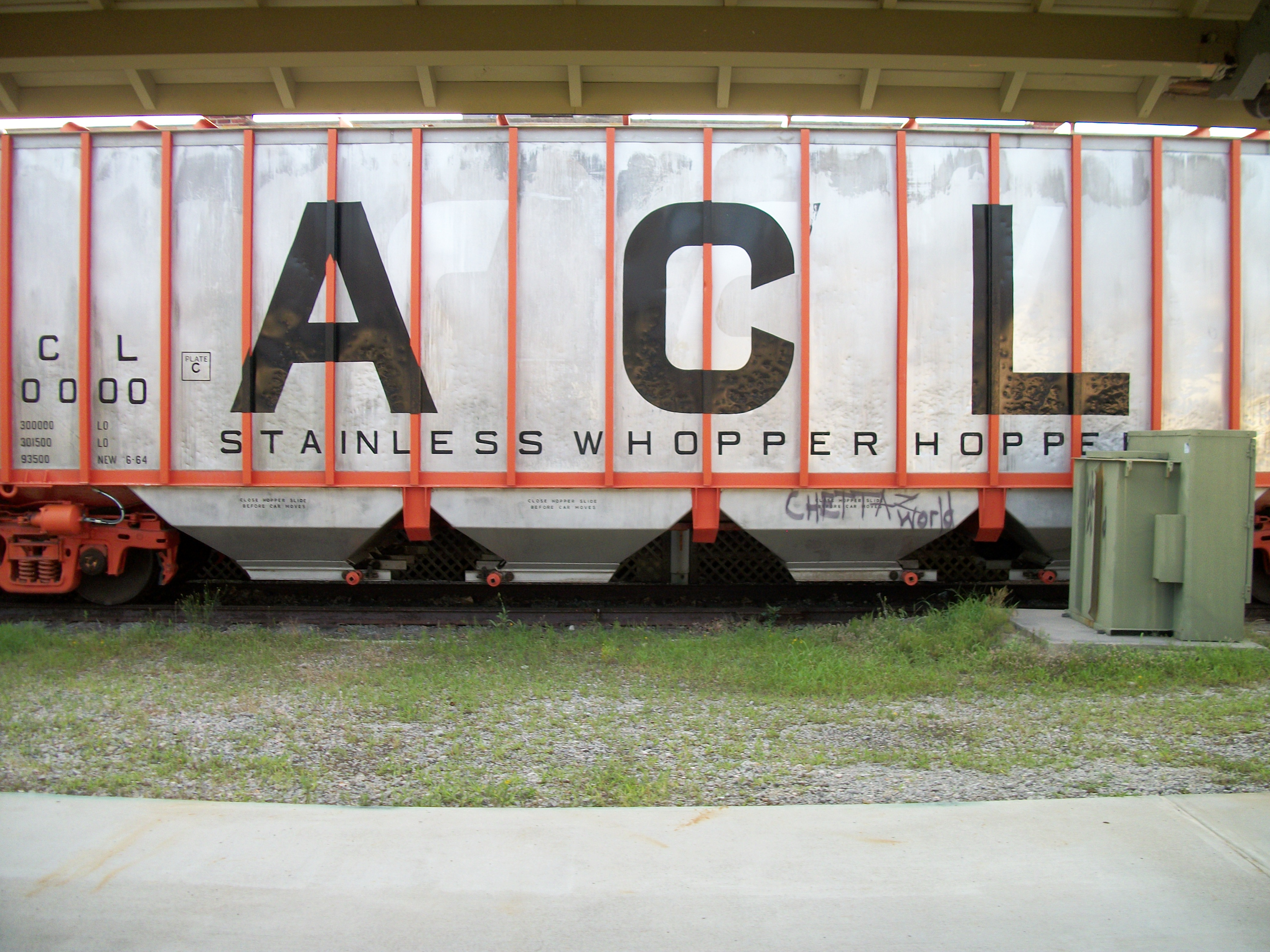 An Atlantic Coast Line Railroad "Stainless Whopper Hopper" on display along the Rocky Mount (Amtrak station) and Bus Depot in Rocky Mount, North Carolina. Of course the graffiti on one of the chutes proves it's not so "stainless" after all.